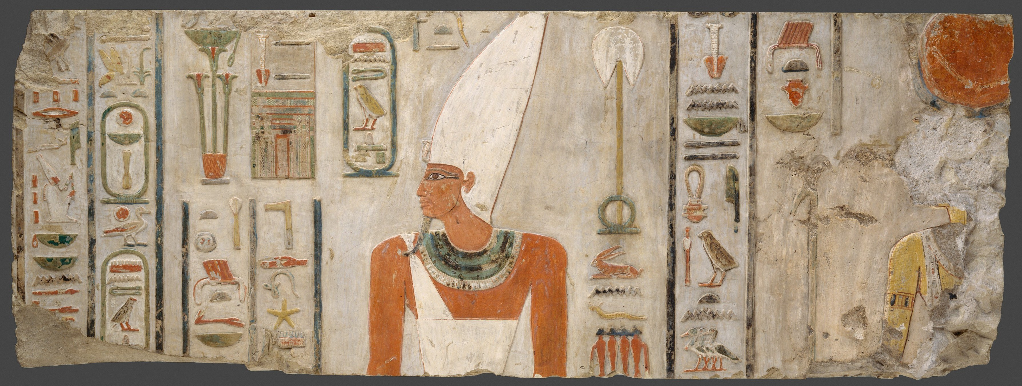 A fragment of a wall with hieroglyphics and a king, Mentuhotep II of Egypt.